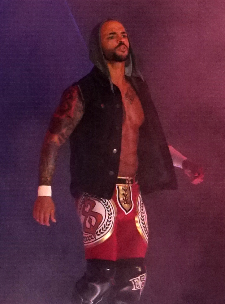 Ricochet enters the arena at NXT TakeOver: New Orleans.